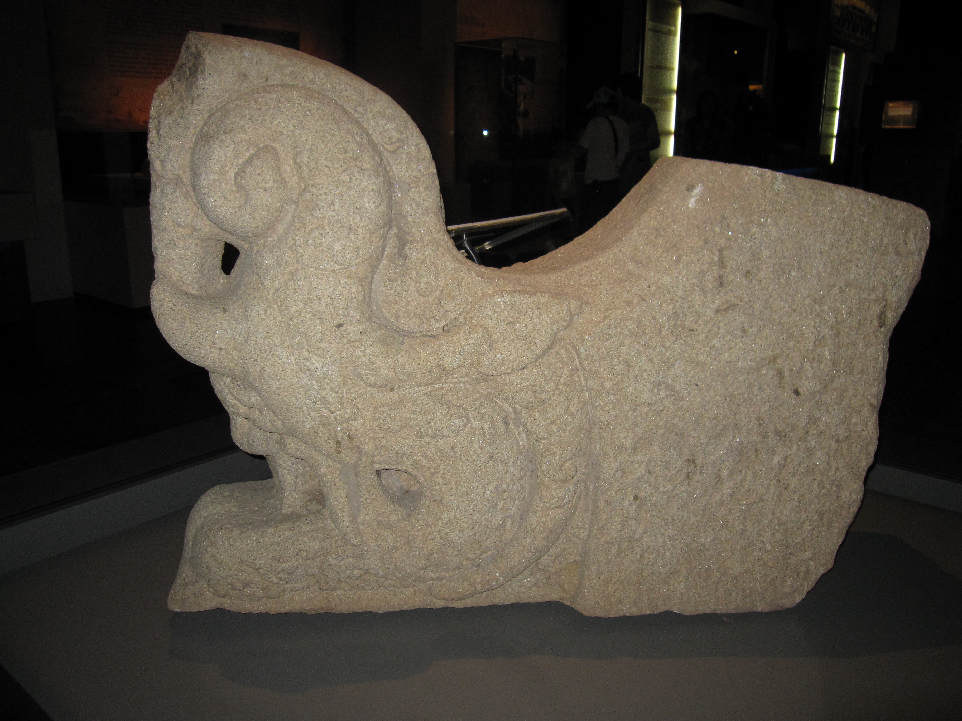 The makara is a symbolic cohesion of the elemtens of the two creatures which possessed special qualities. The makara exhibited here is in the form of an elephant and a fish, the symbols of powerful animals, both on land and sea which is carved from a large boulder. In the olden days ,the makara (usually in pairs) were used as decorations located at the main entrance of a building, such as a candi. This makara was found at Kampung Sungai Emas, Kuala Muda, believed to be from the 7th century CE.